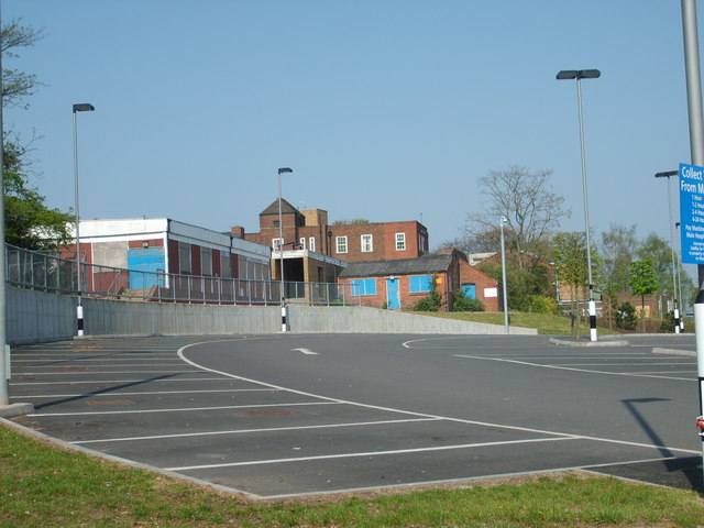 Old Corbett Hospital The old Main Corbett Hospital is now closed and the services moved to Russells Hall Dudley.